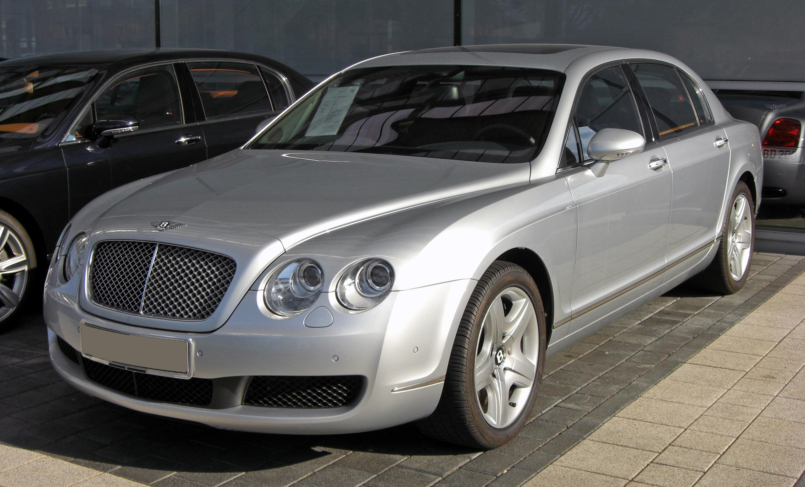 Bentley Continental Flying Spur